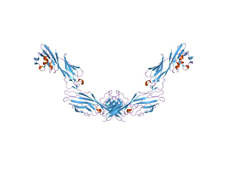 Cartoon representation of the molecular structure of protein registered with 1wip code.